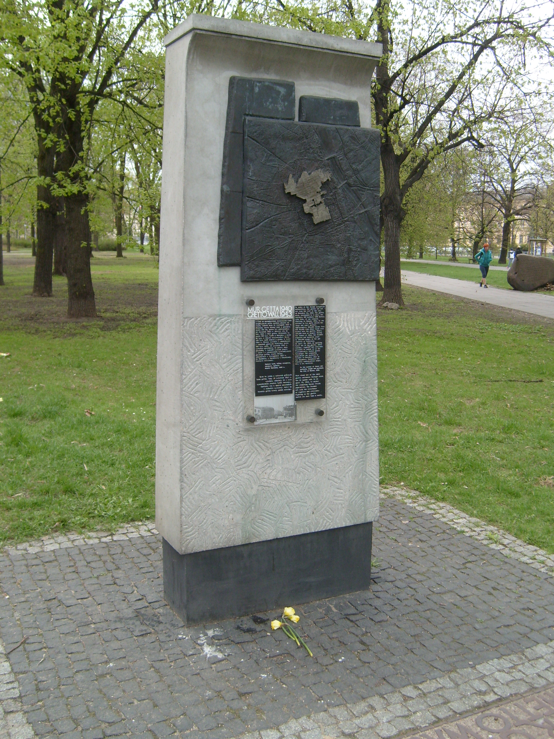 Ghetto wall monument, Andersa Street in Warsaw, Poland.